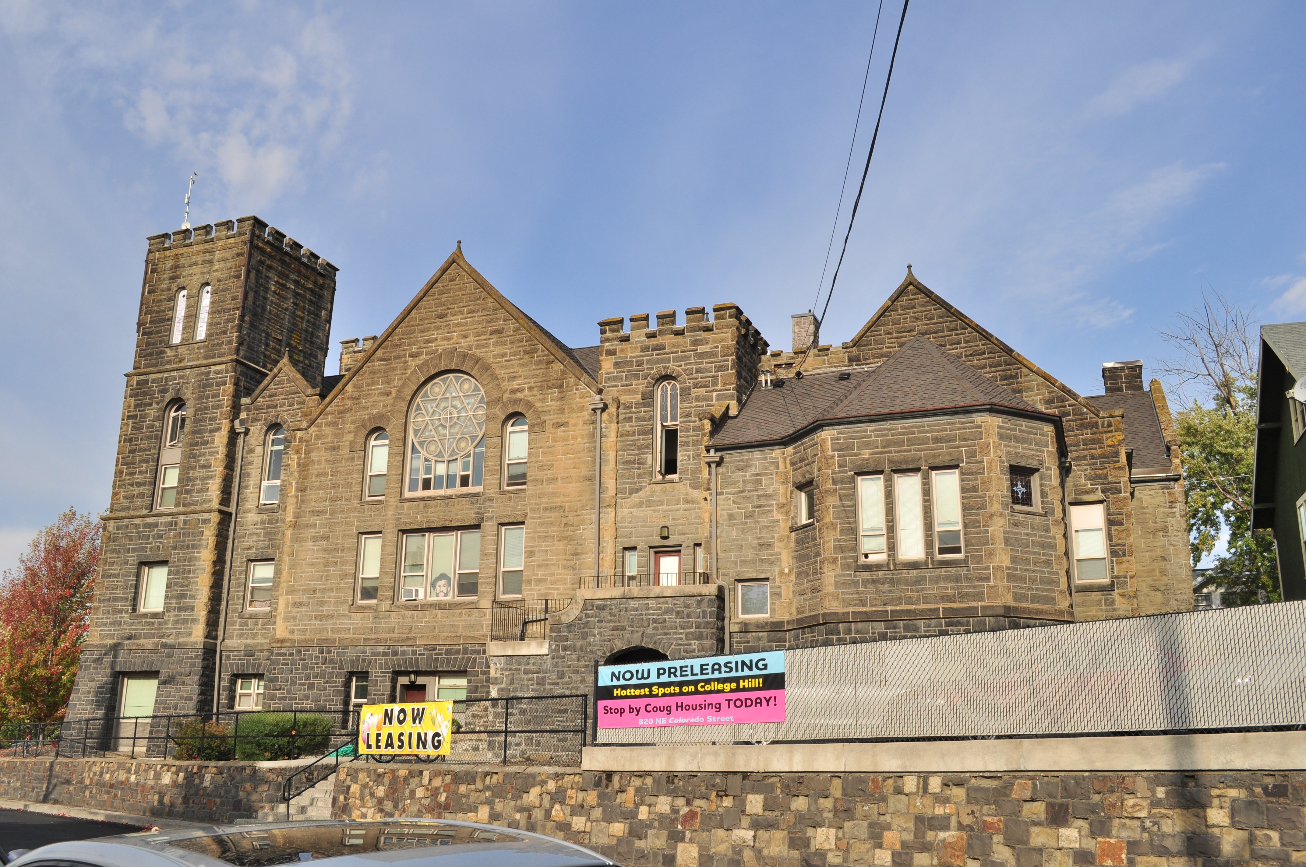 Former United Presbyterian Church, 430 Maple St., Pullman, Washington, U.S., now an apartment house.